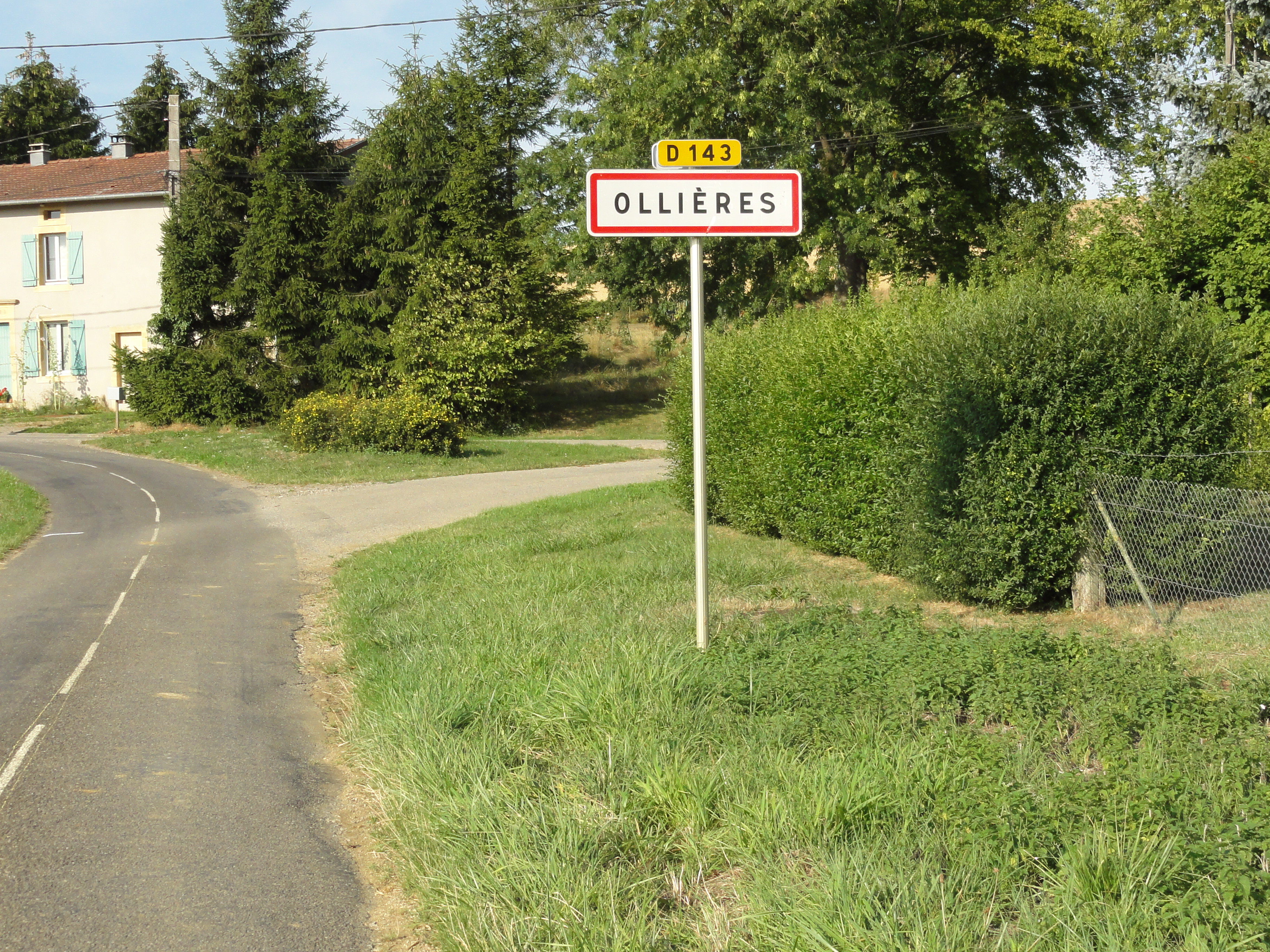 Ollières (Spincourt, Meuse) city limit sign